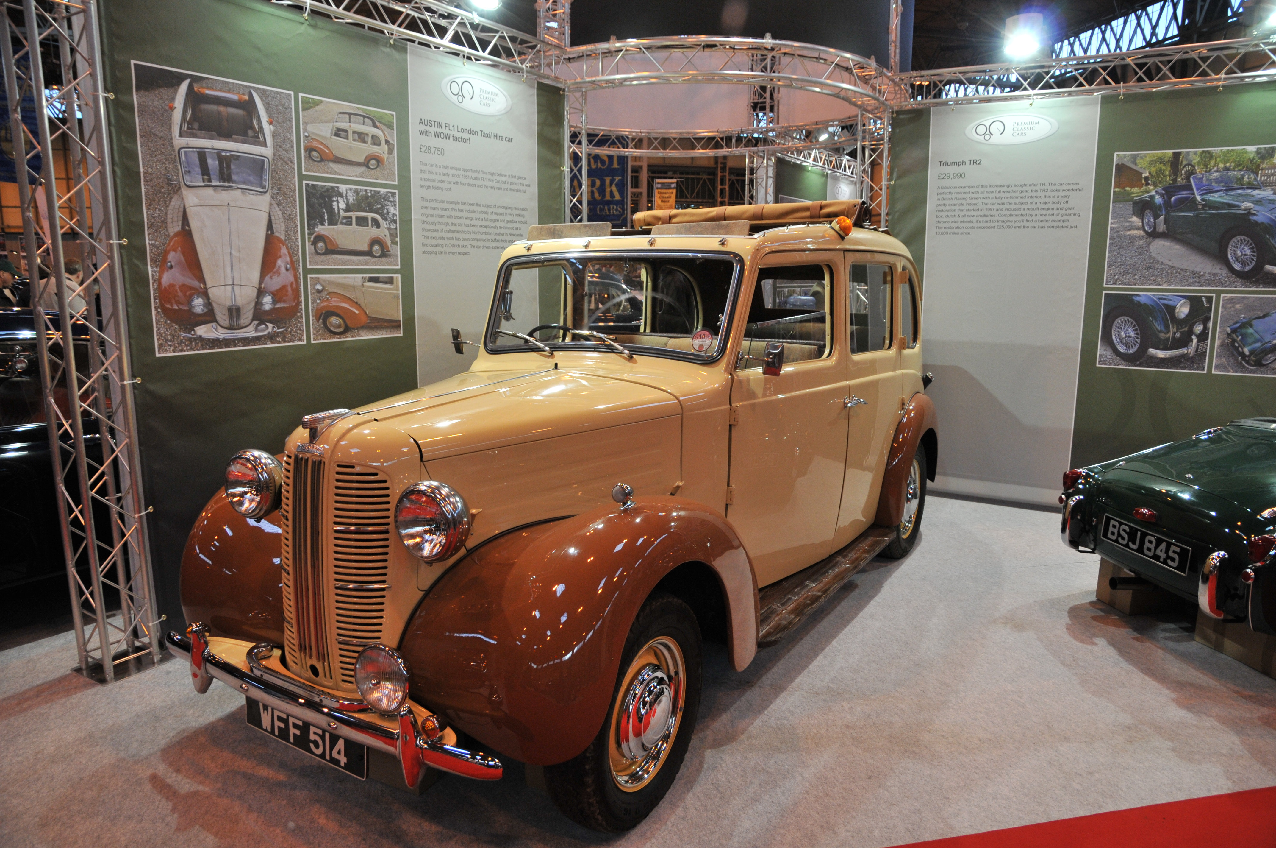 Austin FL1 at the 2010 NEC Classic Car Show